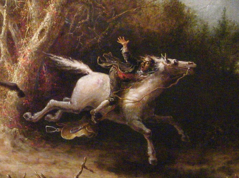 Detail of The Headless Horseman Pursuing Ichabod Crane